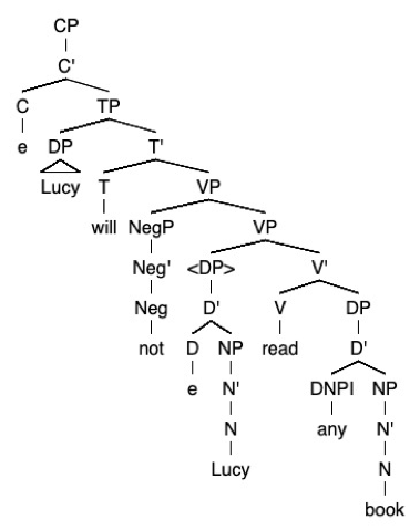 Grammatical sentence with NPI